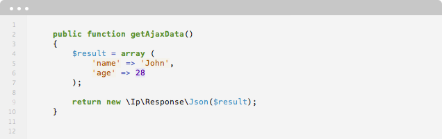 ImpressPages 4.0 has a lightweight and clean MVC engine right under the hood providing you with MVC, routing, template helpers, url generation, DB layer (and PDO, if you are friends).